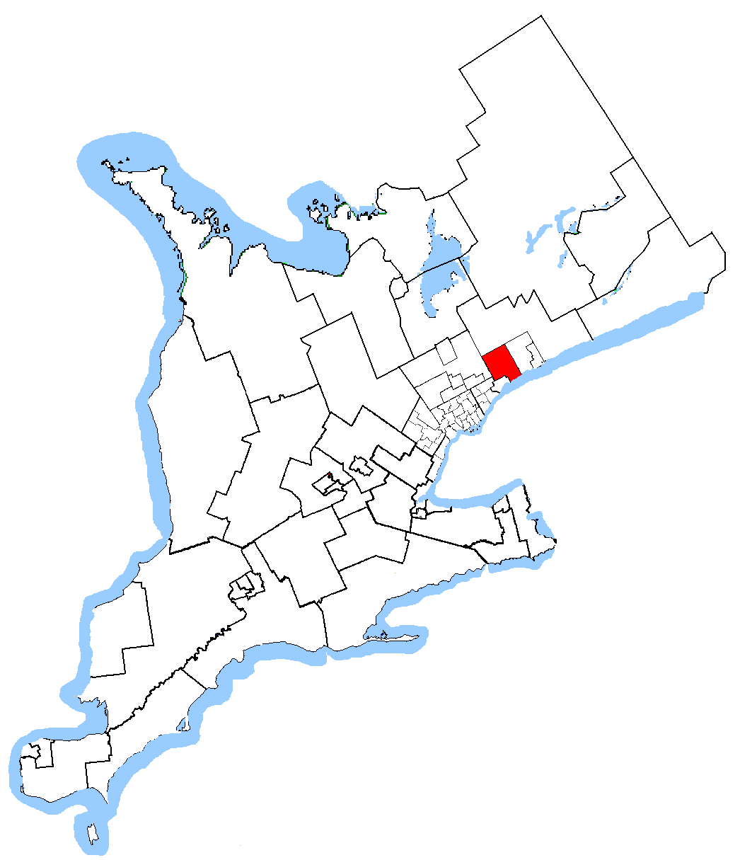 adapted from the maps by User:SimonP which were in turn adapted from maps made by me.